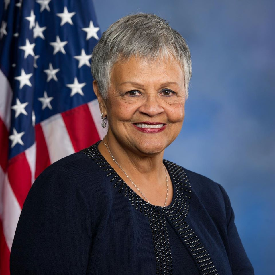 Bonnie Watson Coleman official portrait 114th Congress